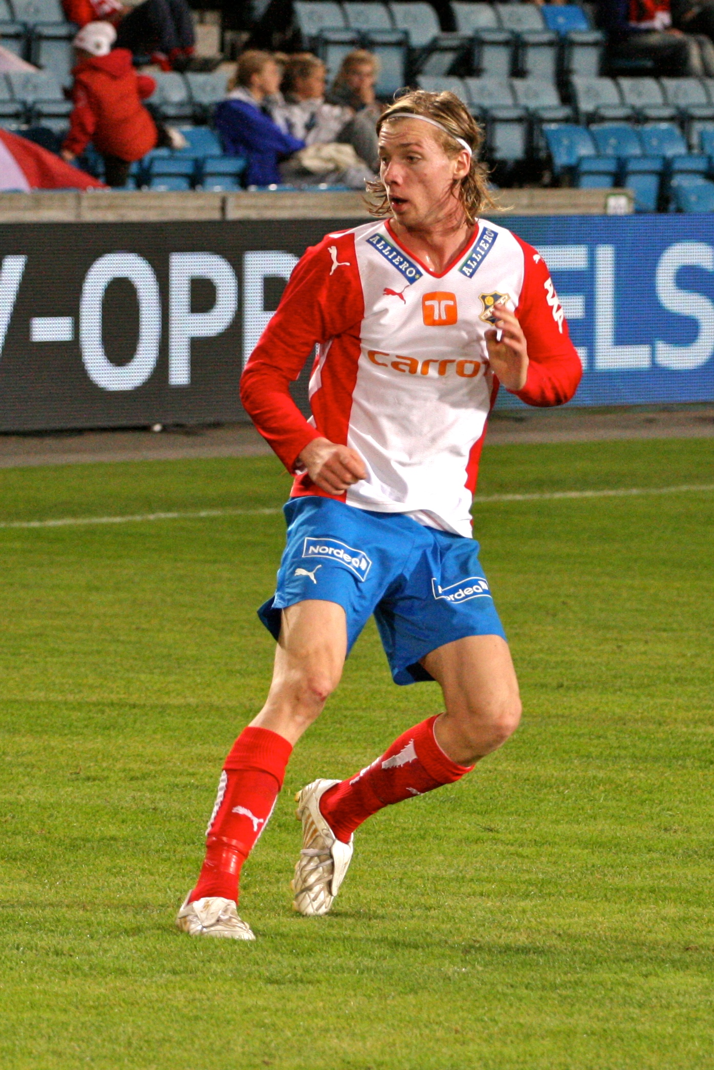 Jo Inge Berget, FC Lyn Oslo footballer.